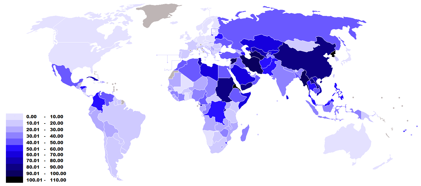 Shows Press Freedom Index scores for 2010